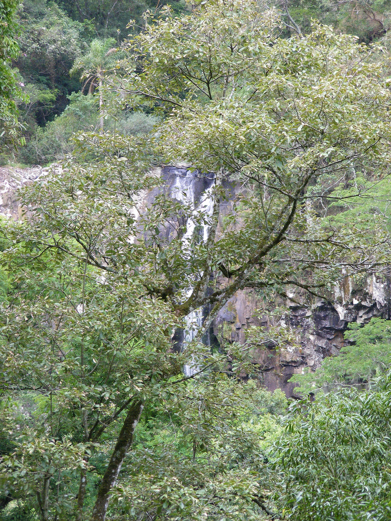 Deciduous forest in Santa Maria, Rio Grande do Sul, Brazil.